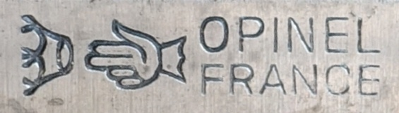 Opinel brand marking on carbon steel blade of N°10 (c. 2000)